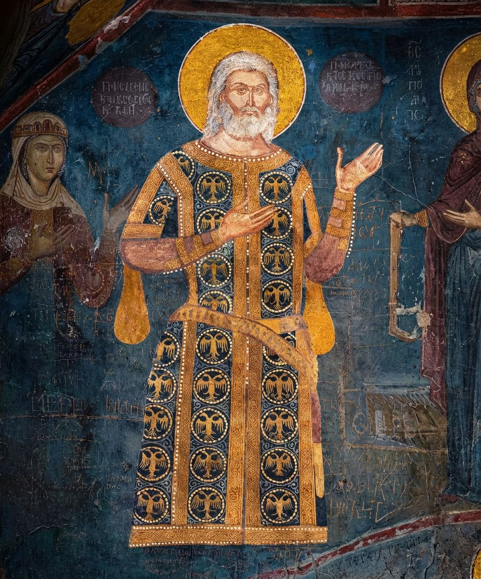 Novak the Serb, fresco from Maligrad, Prespa